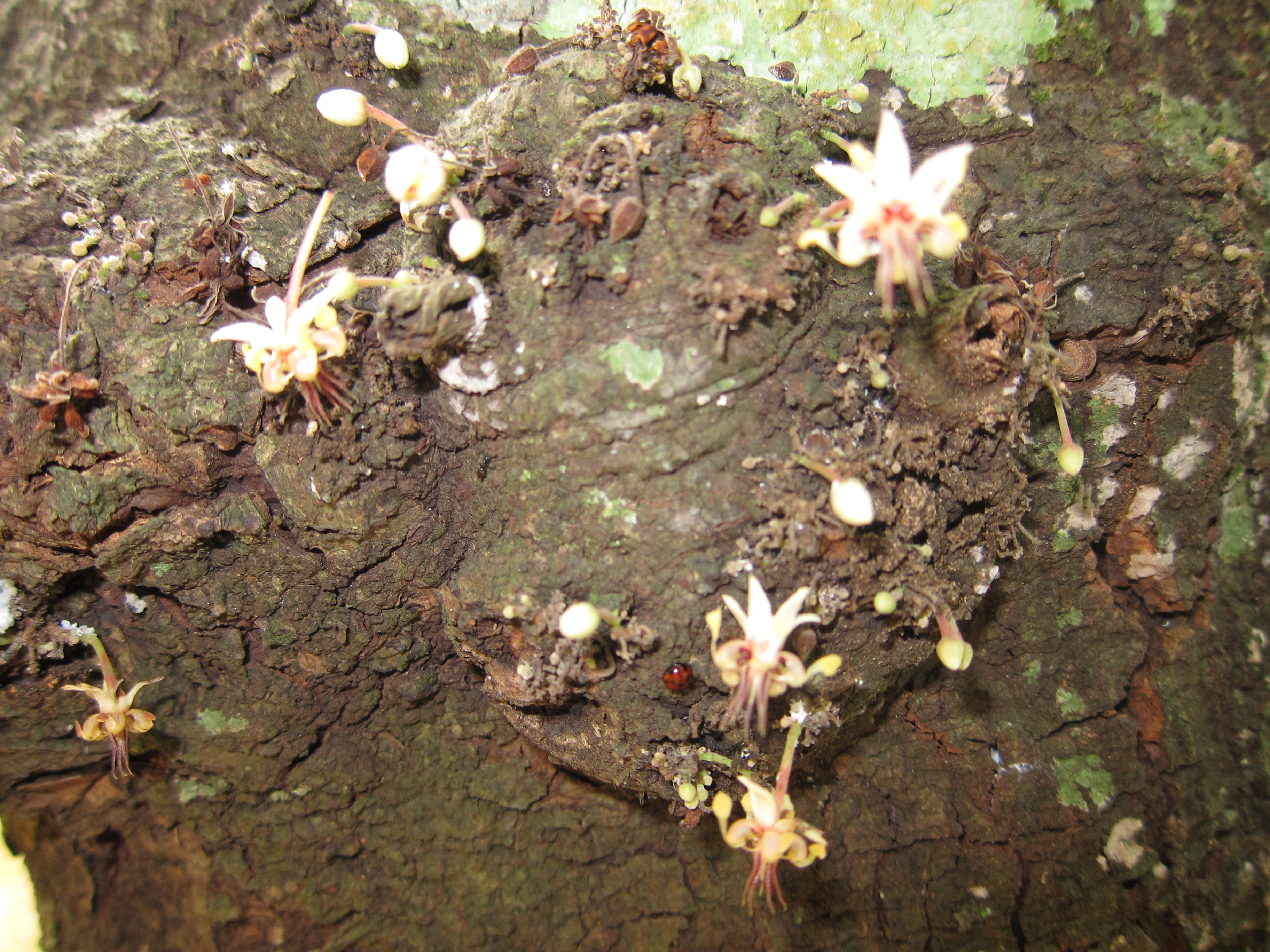 Coco Flower